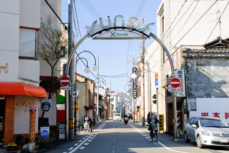 Toyoda Shopping Street in Toyooka.